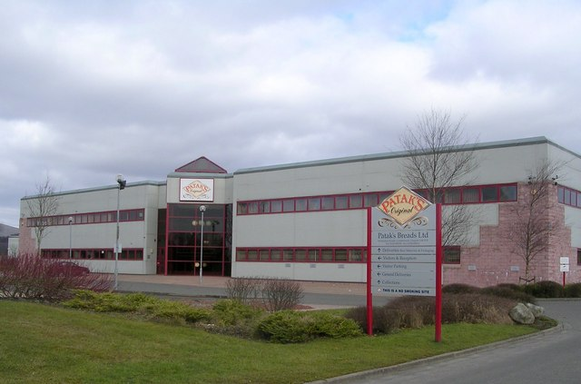 Patak's Breads Ltd, Cumbernauld.